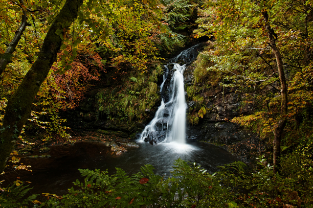 Waterfall at Toormakeady, Peoples Millennium Forest